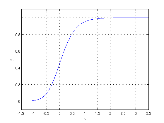 Generalized logistic function (as described in Generalised_logistic_function, Jul 13 2009) with parameters: A=0, K=1, B=1.5, Q=ν=0.5, M=0.5 Done in matlab.